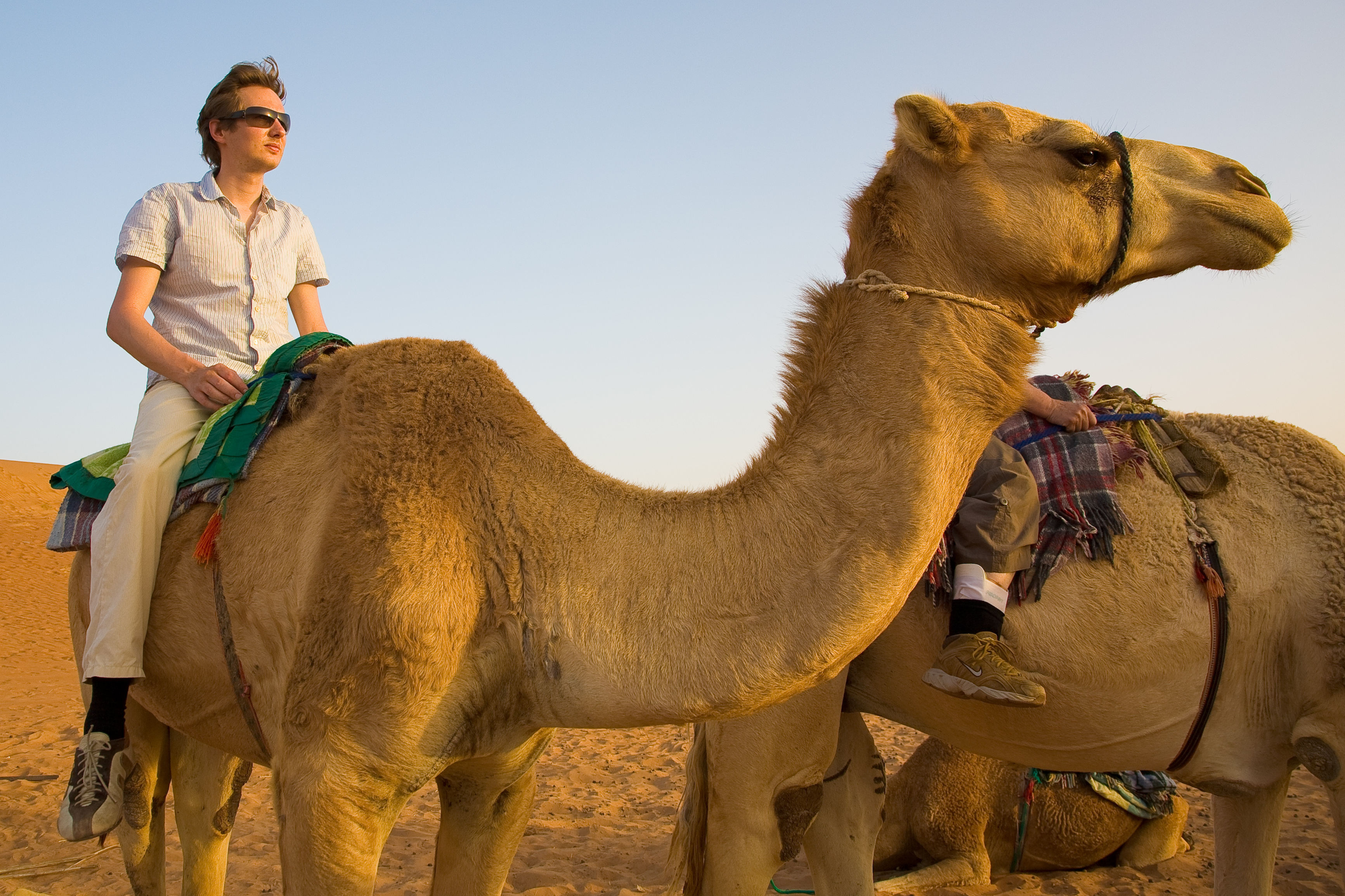 Tourist riding a camel, Wahiba Sands, Oman